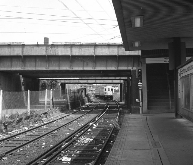 West Ham station An island platform was provided here from 14 May 1979 so that passengers to and from trains between Richmond and North Woolwich could interchange with the District Line above. The line was later electrified, and '2-EPB' units were imported from the Southern Region to work it. The arrangements here were later altered when the Jubilee line arrived here in the late 1990s. Here a '2-EPB' unit is seen northbound just after leaving the station under the District Line and London Tilbury and Southend bridges. This station has now become a major interchange with a new bus station as well.